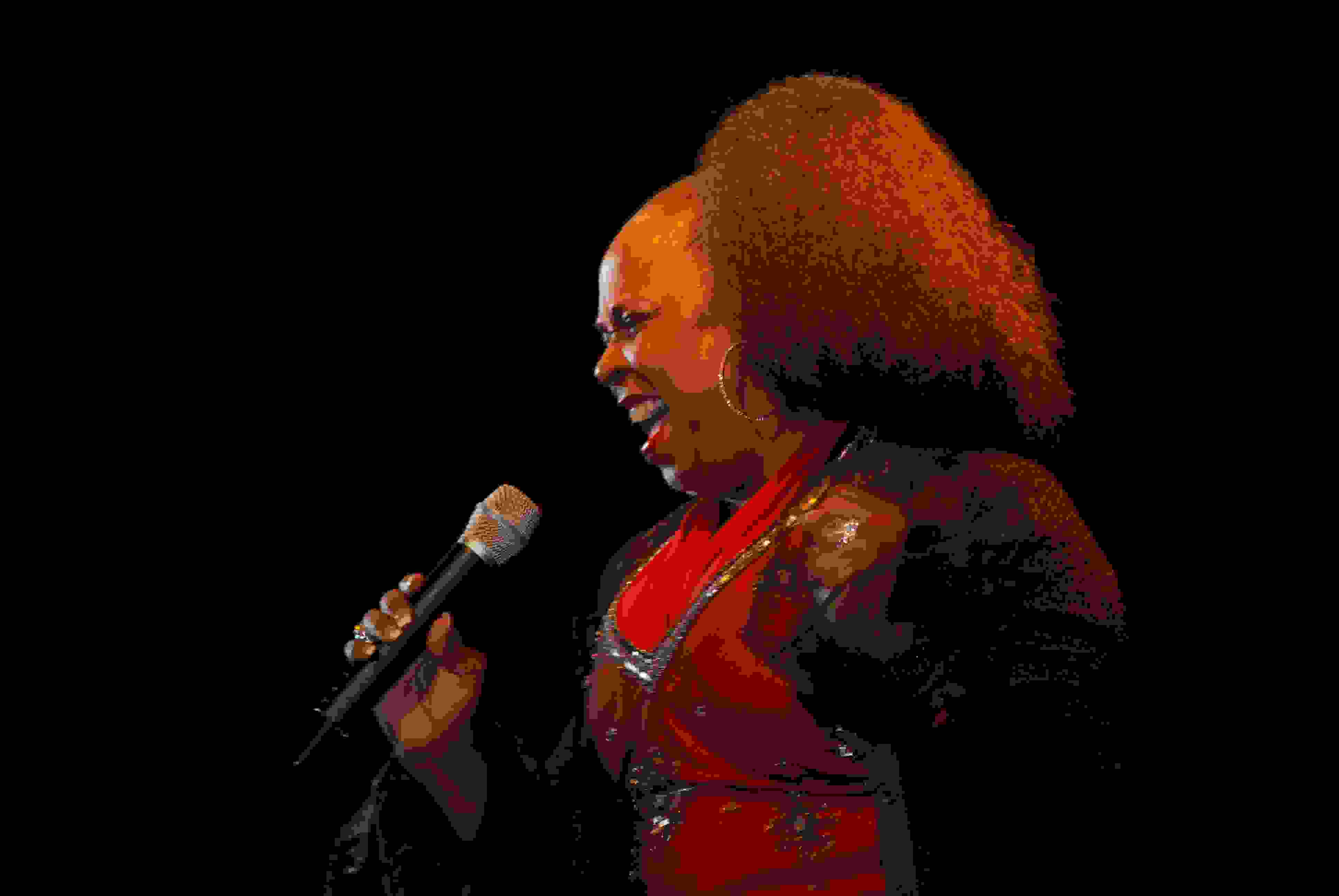 Betty Wright sings to a capacity crowd at Garrett Coliseum in Montgomery, Alabama at the Valentine Weekend Show.